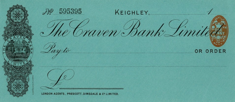 A cheque issued by the Keighley branch of the Craven Bank between 1880 (the formation of the bank as a limited company) and 1906 (when the bank merged with the Bank of Liverpool). The emblem of the bank includes a drawing of the Craven Heifer and also bears the 1d stamp indicating that the cheque was legal even if dated or drawn more than 10 miles from the bank.